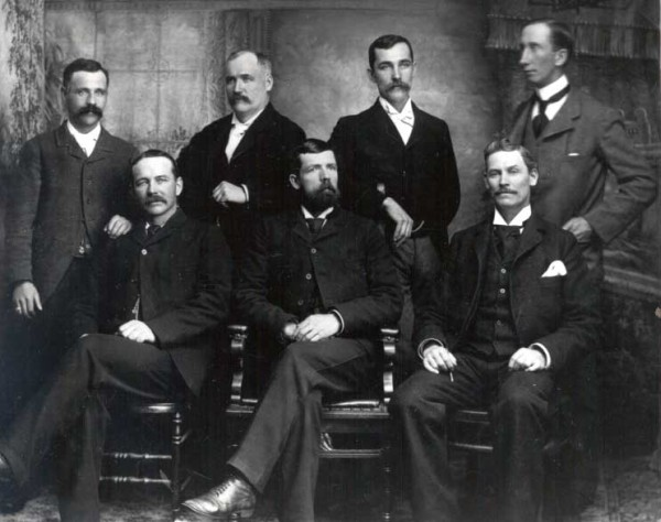 regina Town Council, 1896 City of Regina Archives, B-718.1.